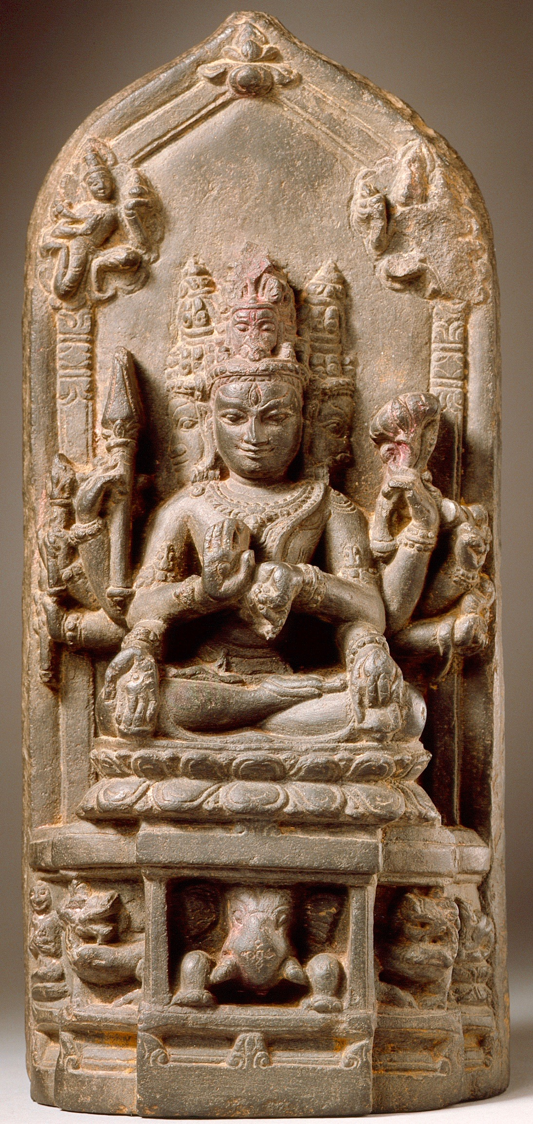 Sadashiva